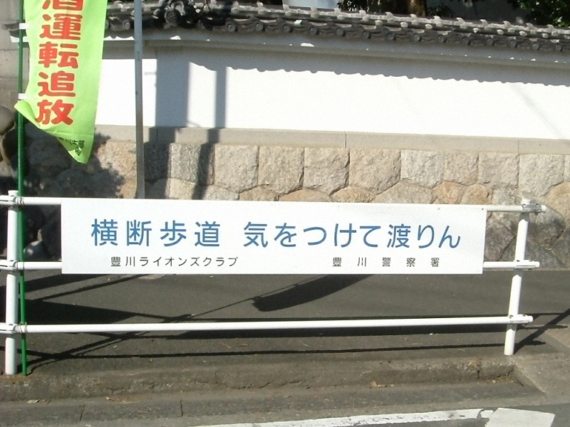 三河弁で書かれた看板 (The Signboard written in Mikawa Dialect)